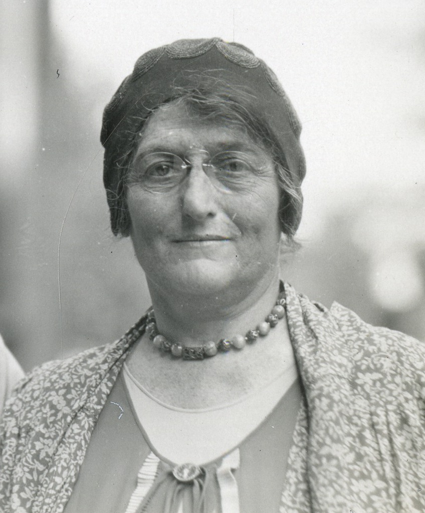 Bird Stein Gans (1868-1944). Gans was one of the founders of the Society for the Study of Child Nature (see SIA Digital No. 2008-1845).